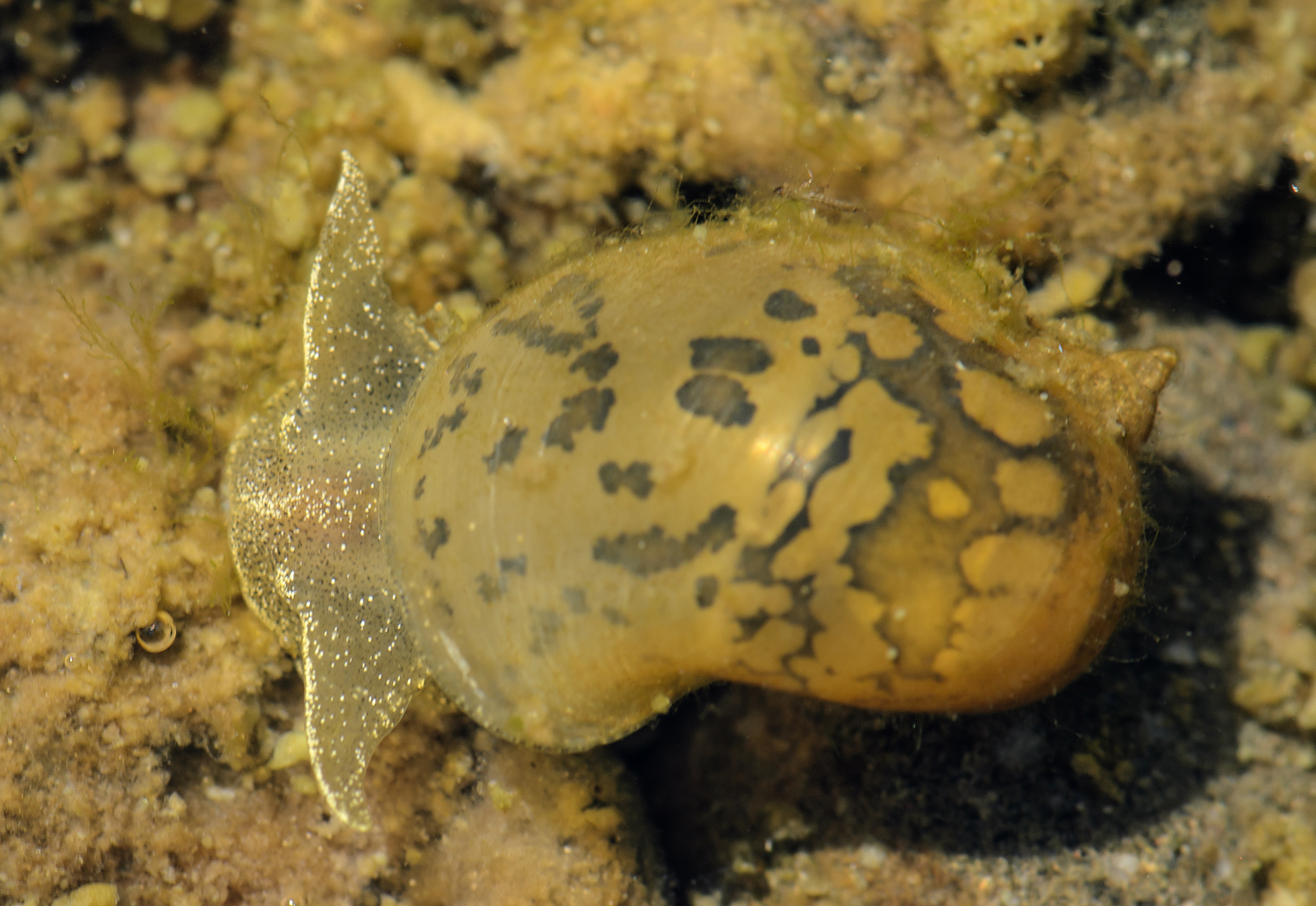 Lymnaea freshwater snail, Navarro River, CA.